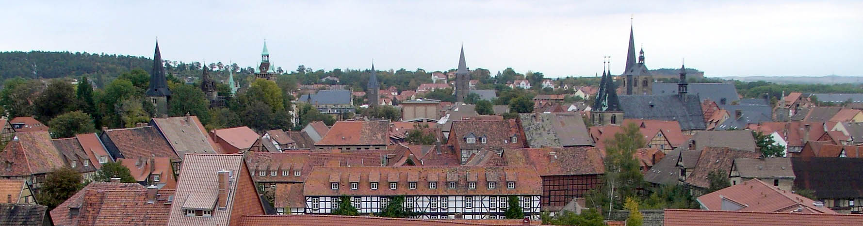 View from castle hill